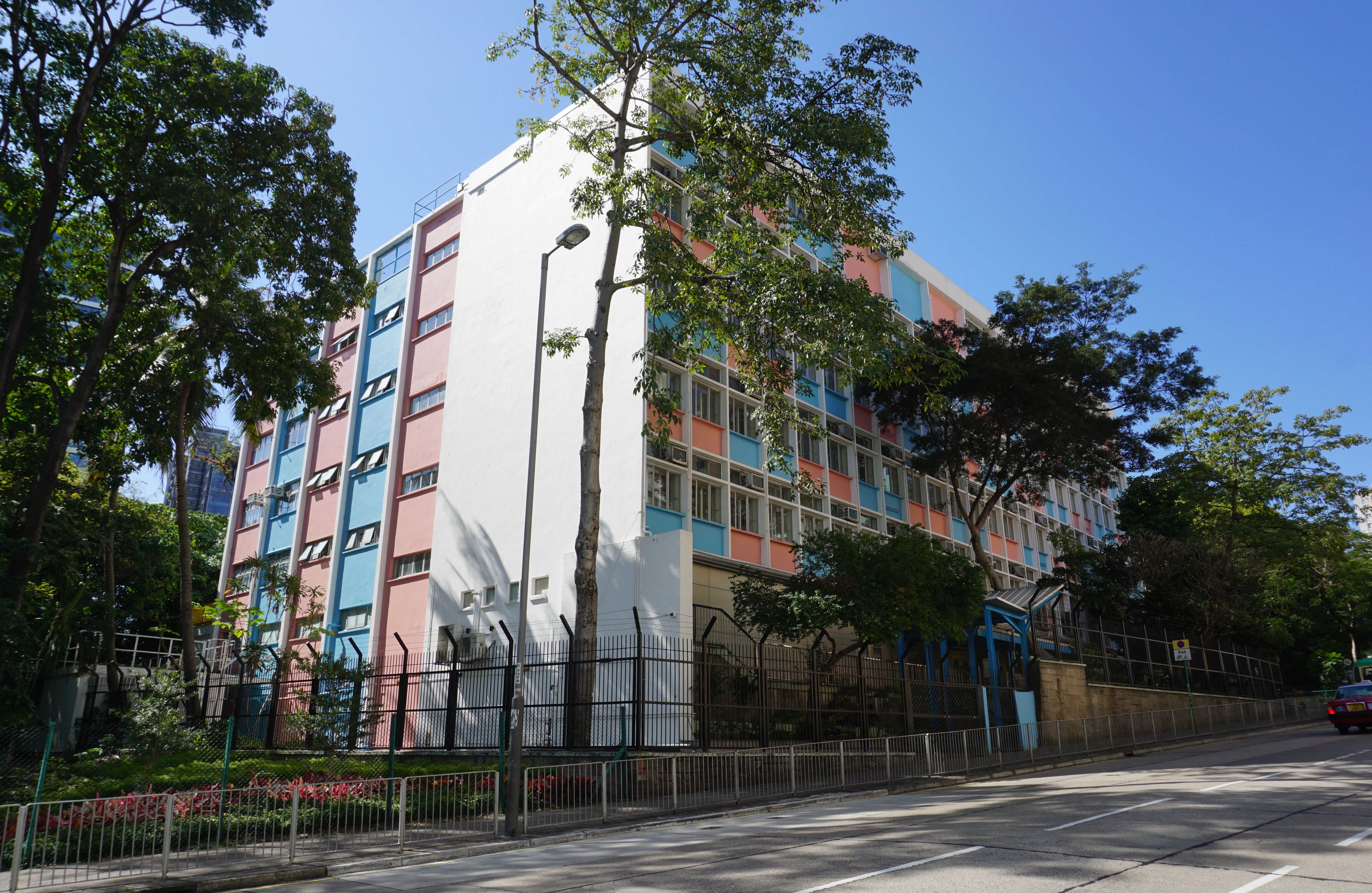 Kwun Tong Government Primary School in Ngau Tau Kok, Hong Kong.